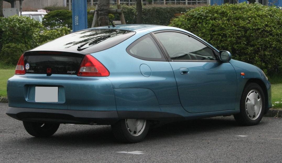 Honda Insight Back